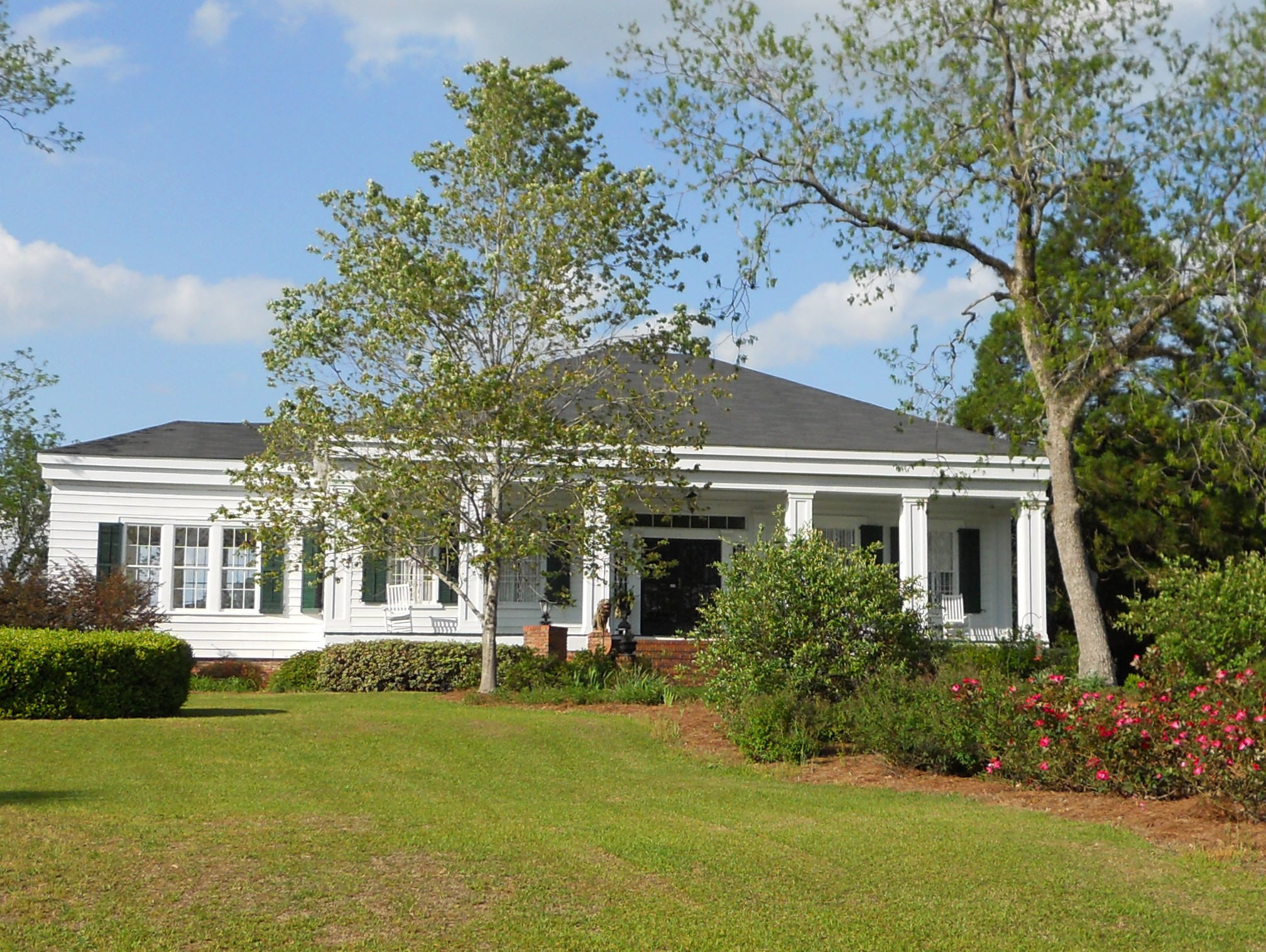 This is a photograph of the Glenn-Thompson Plantation in Pittsview, Alabama.